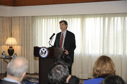 American journalist and professor Ari L. Goldman, speaking at the United States embassy in Tel Aviv, Israel.